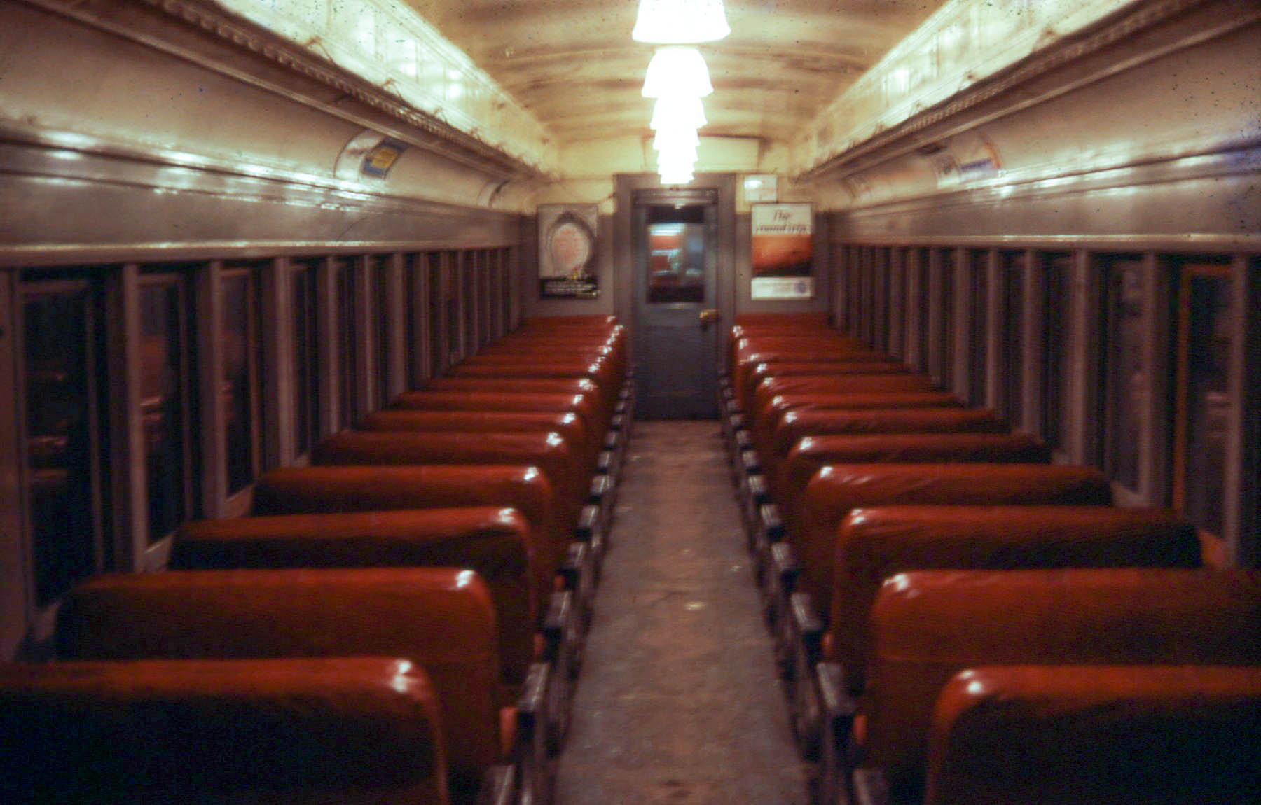 19670630 44 PRR MP54 Interior